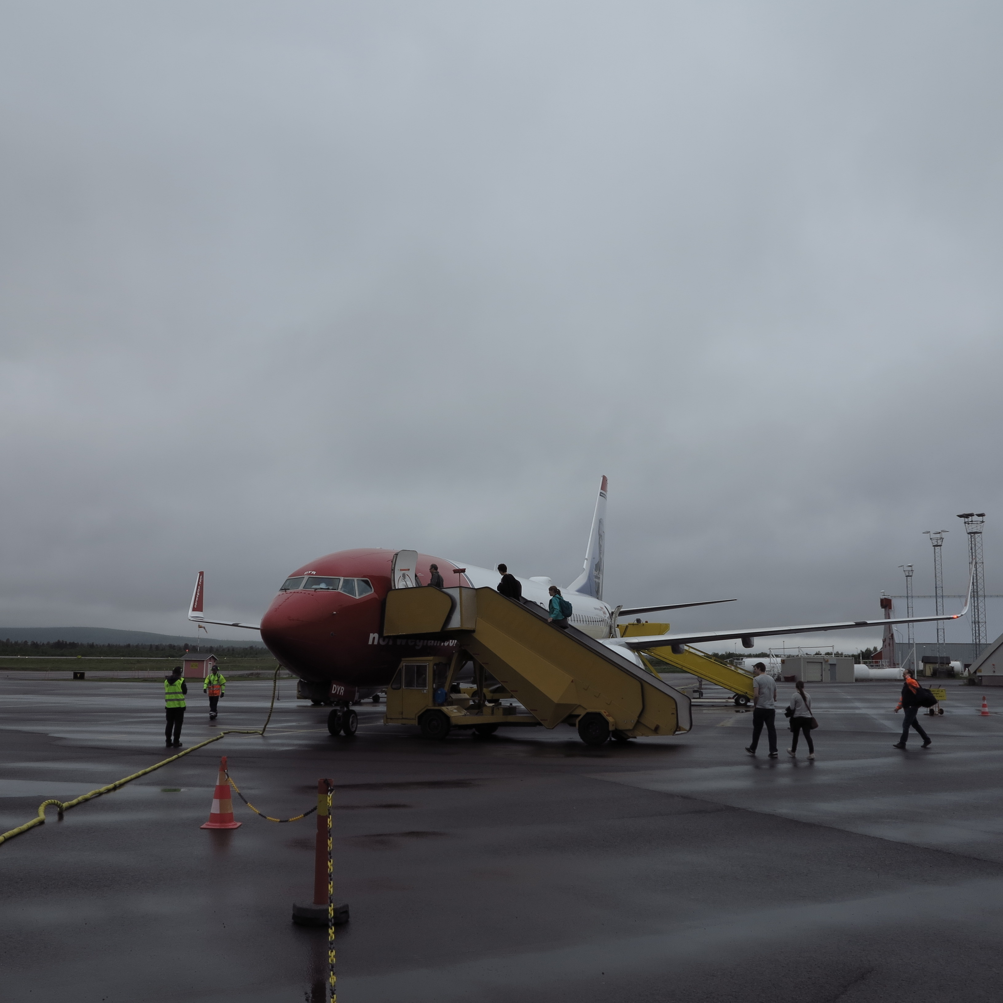 Norwegian plane at Kiruna airport